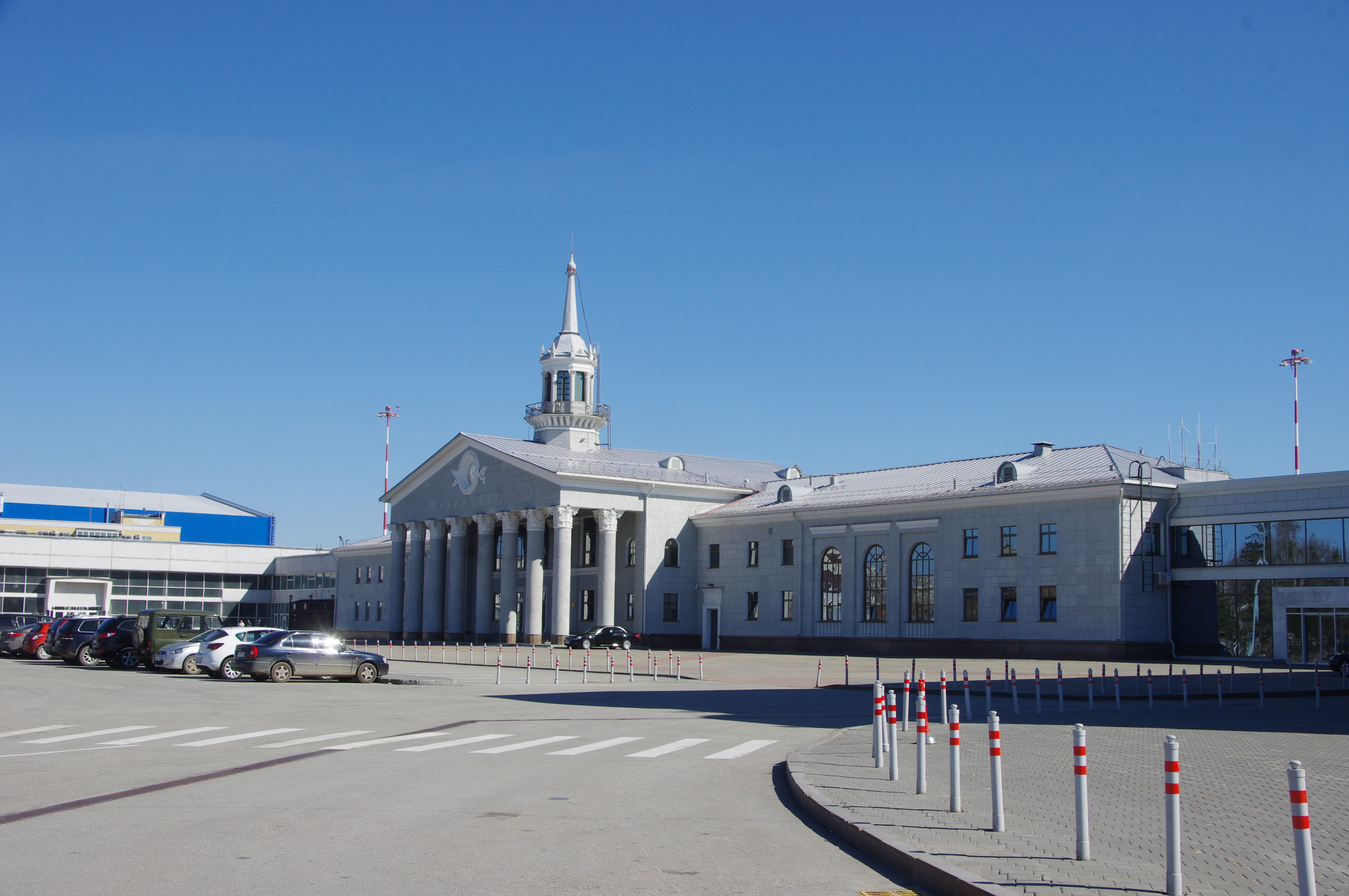 Koltsovo airport and railway halt